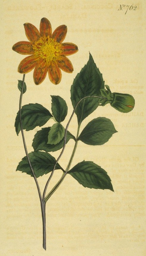 Scarlet-flowered Dahlia by S. Edwards, Sansum from "The Botanical Magazine" 1804. COMMON_NAMES-Scarlet-flowered Dahlia GENUS-Dahlia SPECIES-Dahlia coccinea CLASS-Syngenesia ORDER-Polygamia Superflua AUTHORITY-Cavanilles MODERN_GENUS-Dahlia MODERN_SPECIES-Dahlia coccinea MODERN_FAMILY-Compositae PLANT_TYPE-perennial COLOR-yellow orange or scarlet to dark maroon SEASON-summer - autumn NATIVE_REGION-Mexico to Guatemala ZONE-__ SOURCE-The Botanical Magazine VOLUME-20 PUB_DATE-1804 REISSUED- __ EDITOR-John Sims ARTIST-S. Edwards, Sansum NALPCD-Disc 0427 ING0010.PCD Public Domain.